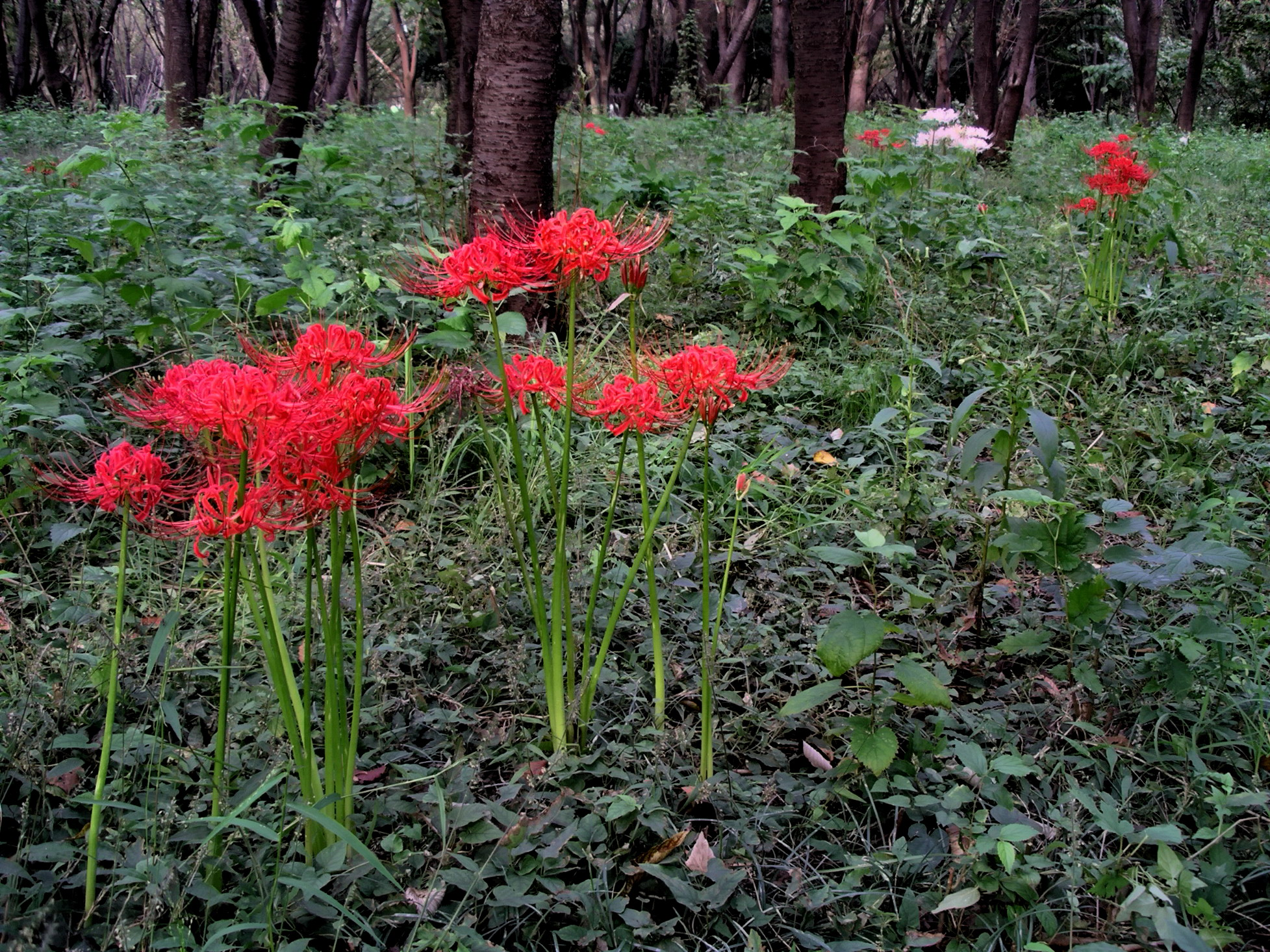 Higanbana (red spider lily).